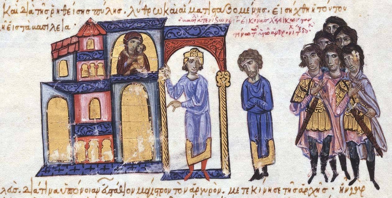 Emperor Leo admonishes Constantine Doukas not to attempt an usurpation of the Byzantine throne